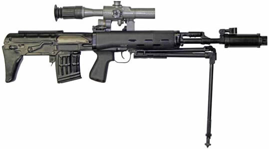 Dragunov SVU